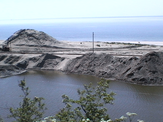 Place where amber was digged up from the ground. Yantarny, Kaliningrad oblast, Russia. When the exploitation of this amber birthplace stopped, the remaining cavity became a lake. Baltic sea is visible behinde the dam, that separates it from the lake.